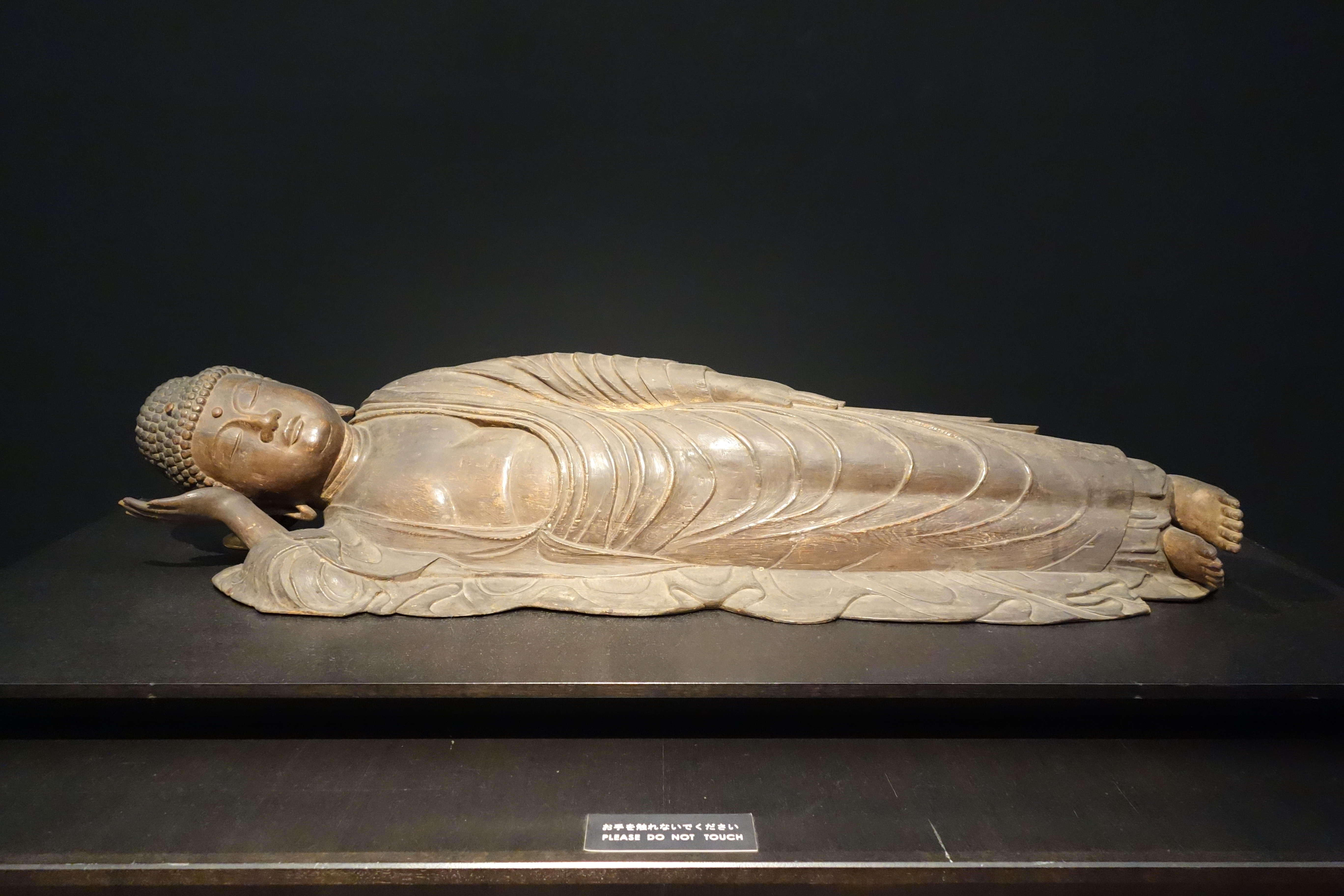 Exhibit in the Tokyo National Museum, Tokyo, Japan. This artwork is old enough so that it is in the public domain.